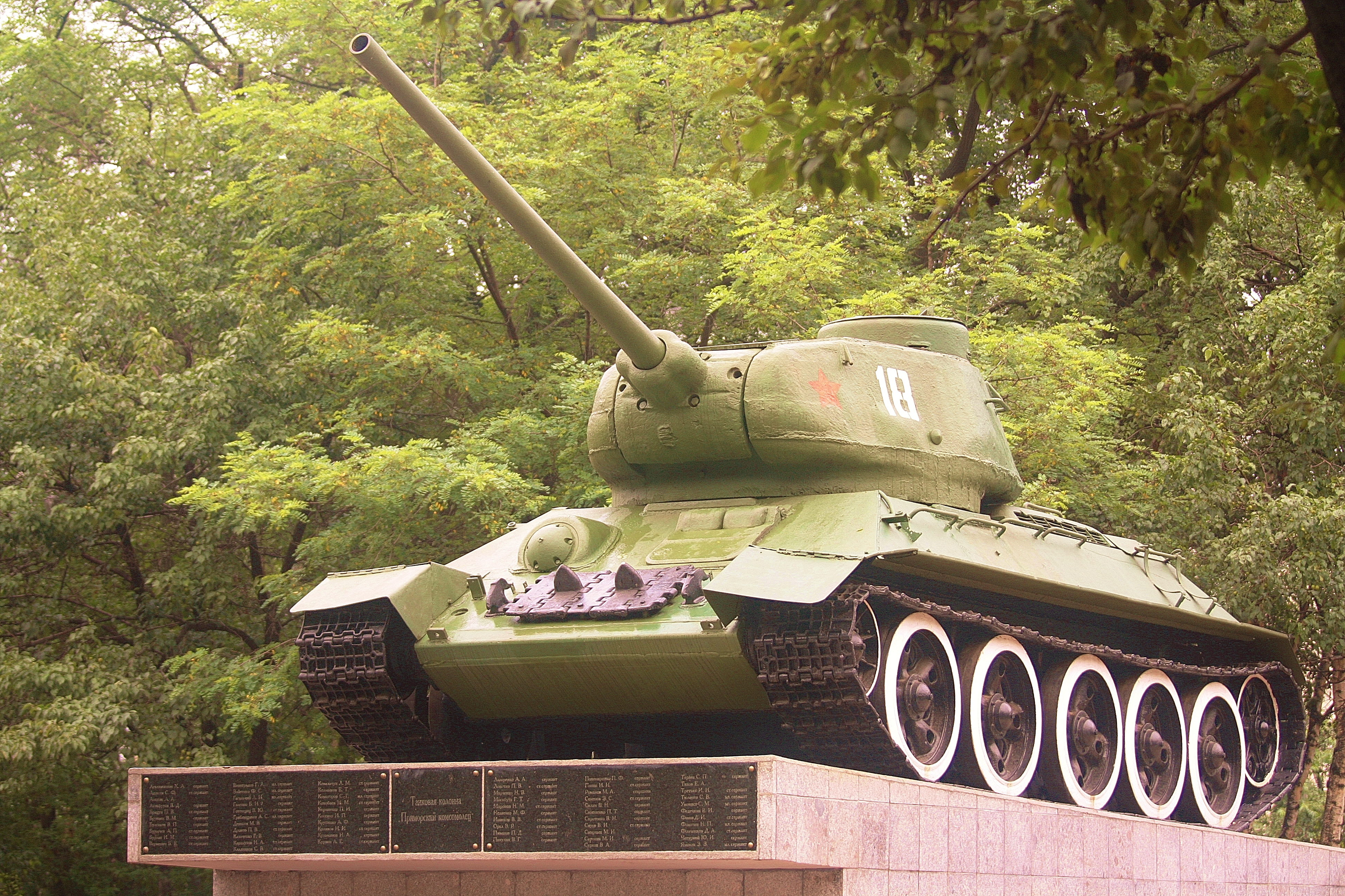 В память о танковой колонне «Приморский комсомолец»